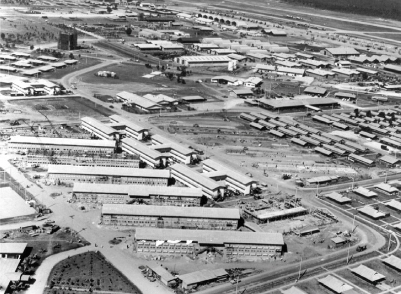 Aerial view of the U.S. Air Force "College Eye" facilities at Korat Royal Thai Air Force Base, Thailand, during the Vietnam War. "College Eye" was the monitoring of flight movements over Vietnam and Laos.